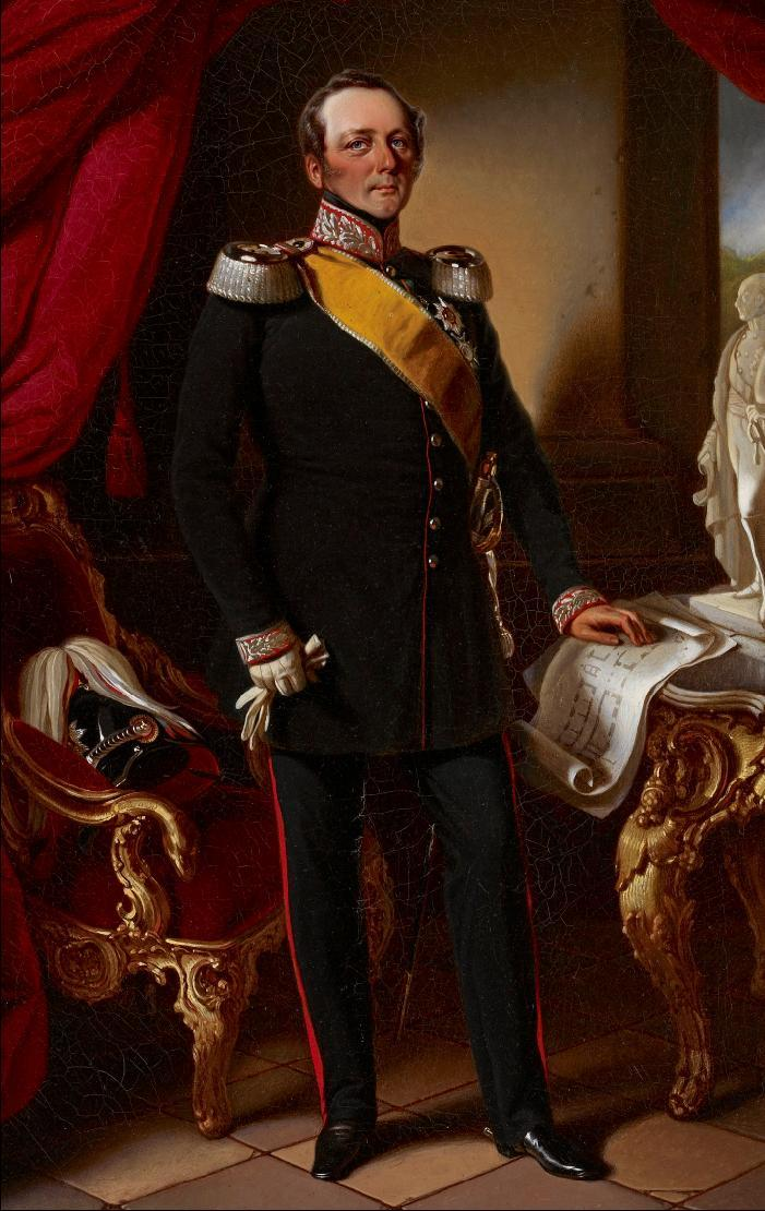 Grand Duke Leopold I. of Baden (1790-1852)